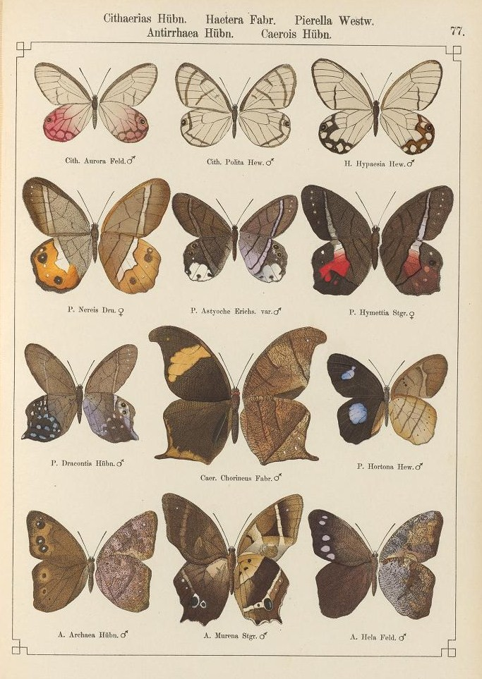 Langhans, H. W., Röber, J., Schatz, E., Staudinger, O., 1888 Exotische schmetterlinge von dr. O. Staudinger und dr. E. Schatz. V. G. Löwensohn, Fürth Cithaerias pireta aurora (C. & R. Felder, 1862) Dulcedo polita (Hewitson, 1869) Pseudohaetera hypaesia (Hewitson, 1854) Pierella nereis (Drury, 1782) Pierella astyoche(Erichson, [1849]) Pierella helvina hymettia Staudinger, 1886 Pierella dracontis synonym for Pierella hyalinus (Gmelin, [1790]) Caerois chorinaeus (Fabricius, 1775) Pierella hortona(Hewitson, 1854) Antirrhea archaea Hübner, [1822] Antirrhea philoctetes murena (Staudinger, [1886]) Antirrhea hela C. & R. Felder, 1862